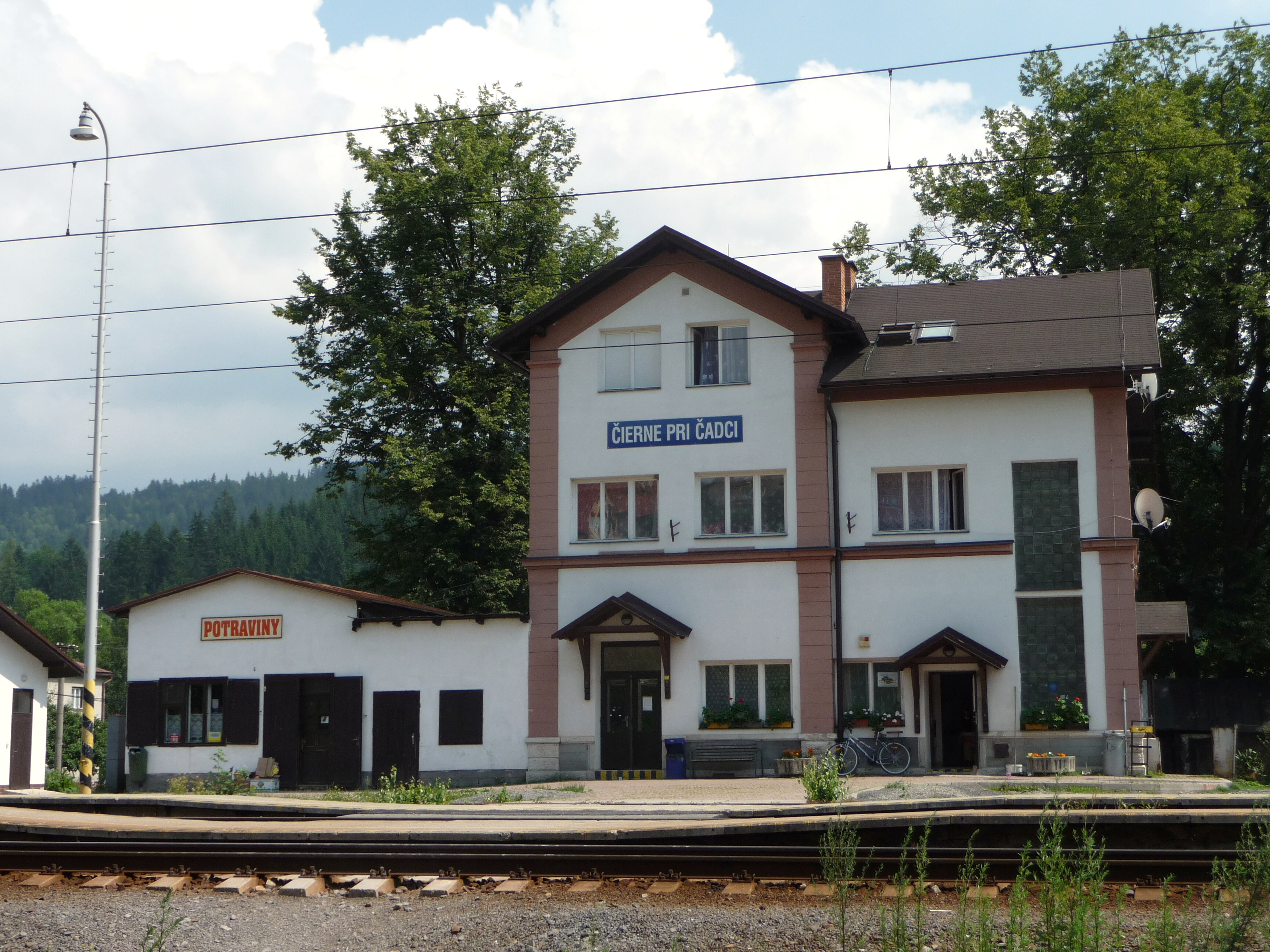 Railway station in Čierne pri Čadci (Žilina Region, Slovakia).